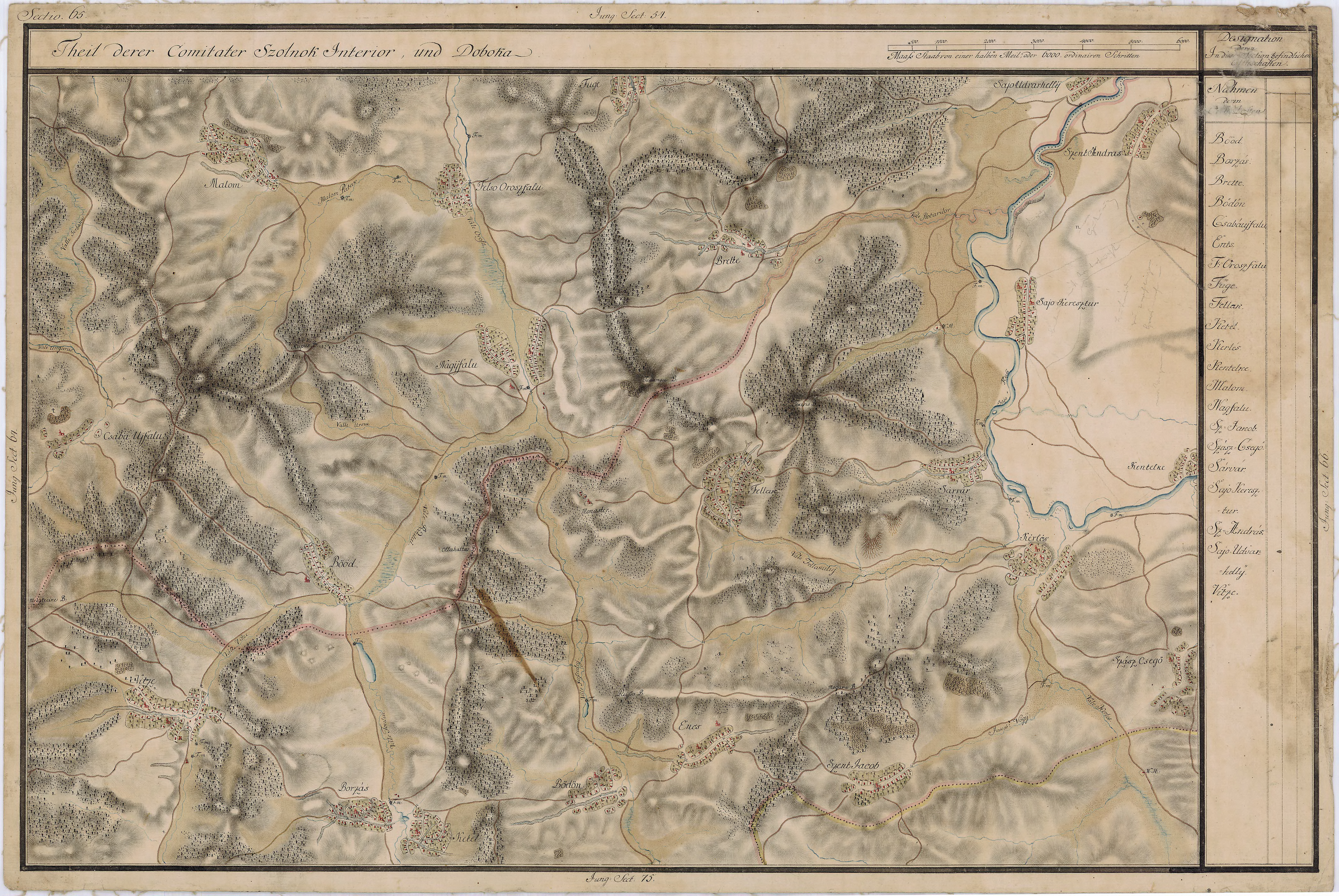 Grand Duchy of Transylvania, 1769-1773. Josephinische Landaufnahme pg.065